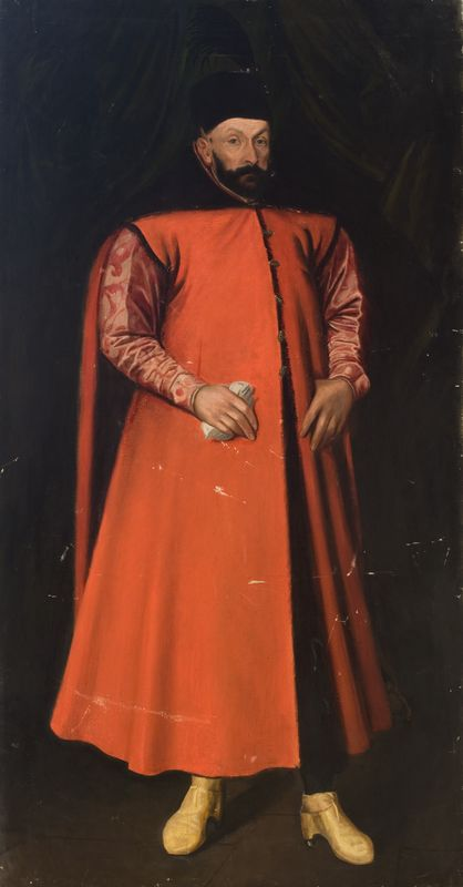 Portrait of King Stephen Bathory